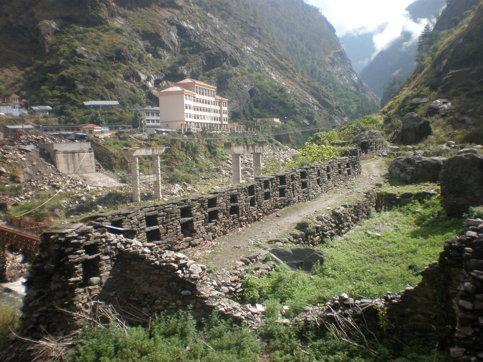 The ancient Rasuwa Fort in Rasuwa District with the Gyirong Port (border crossing) buildings in the background across the river in China.